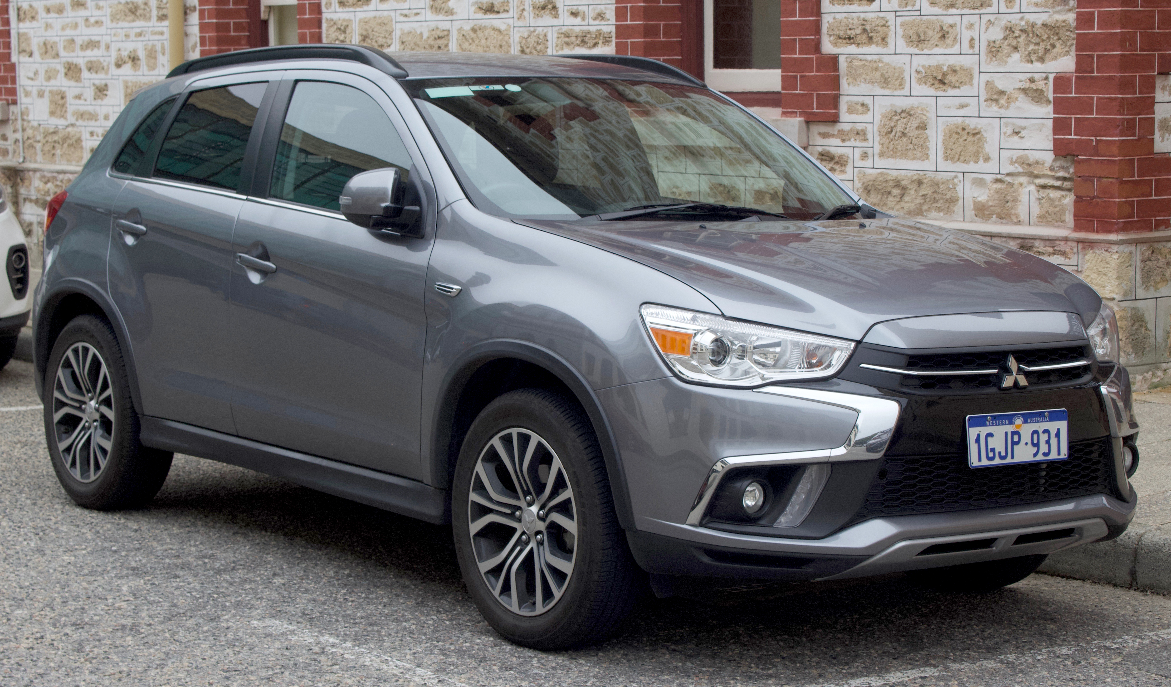 2017 Mitsubishi ASX (XE) LS wagon. Photographed in Fremantle, Western Australia, Australia.